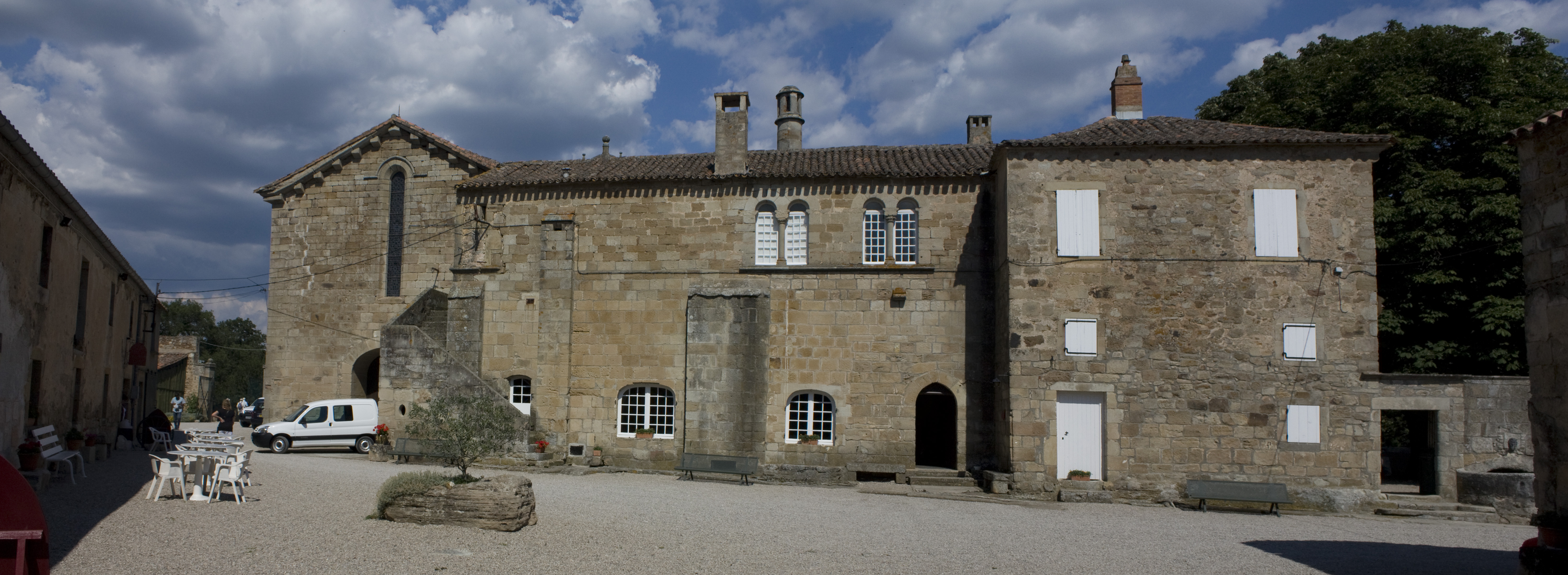 Panorama of the façade. (service quarters backyard).